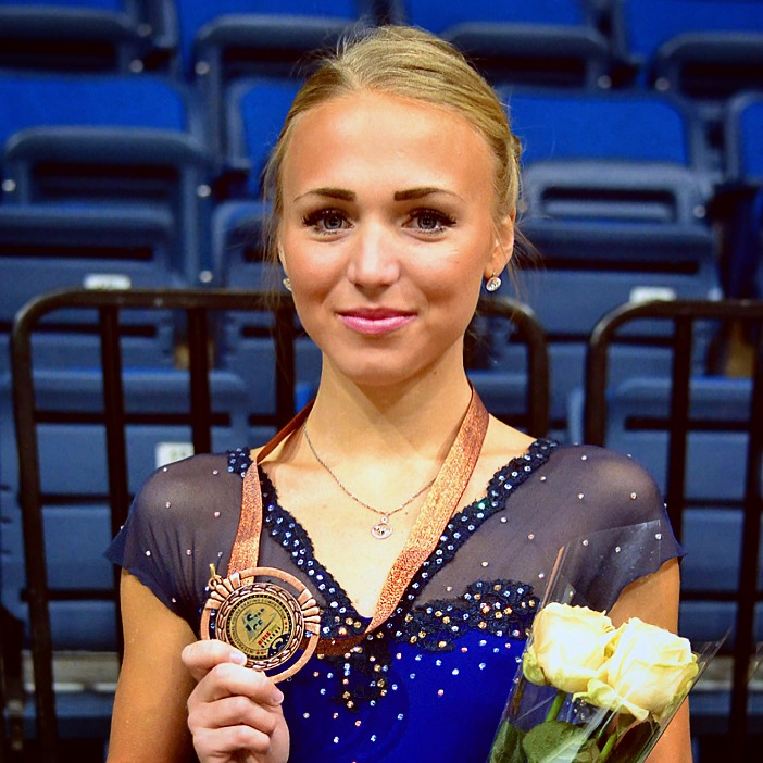 Johanna Allik in Minsk